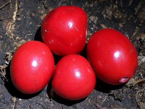 Red Fruited Ebony Diospyros mabacea at the Royal Botanic Gardens, Sydney, seeds are resting on the base of the Ombú tree